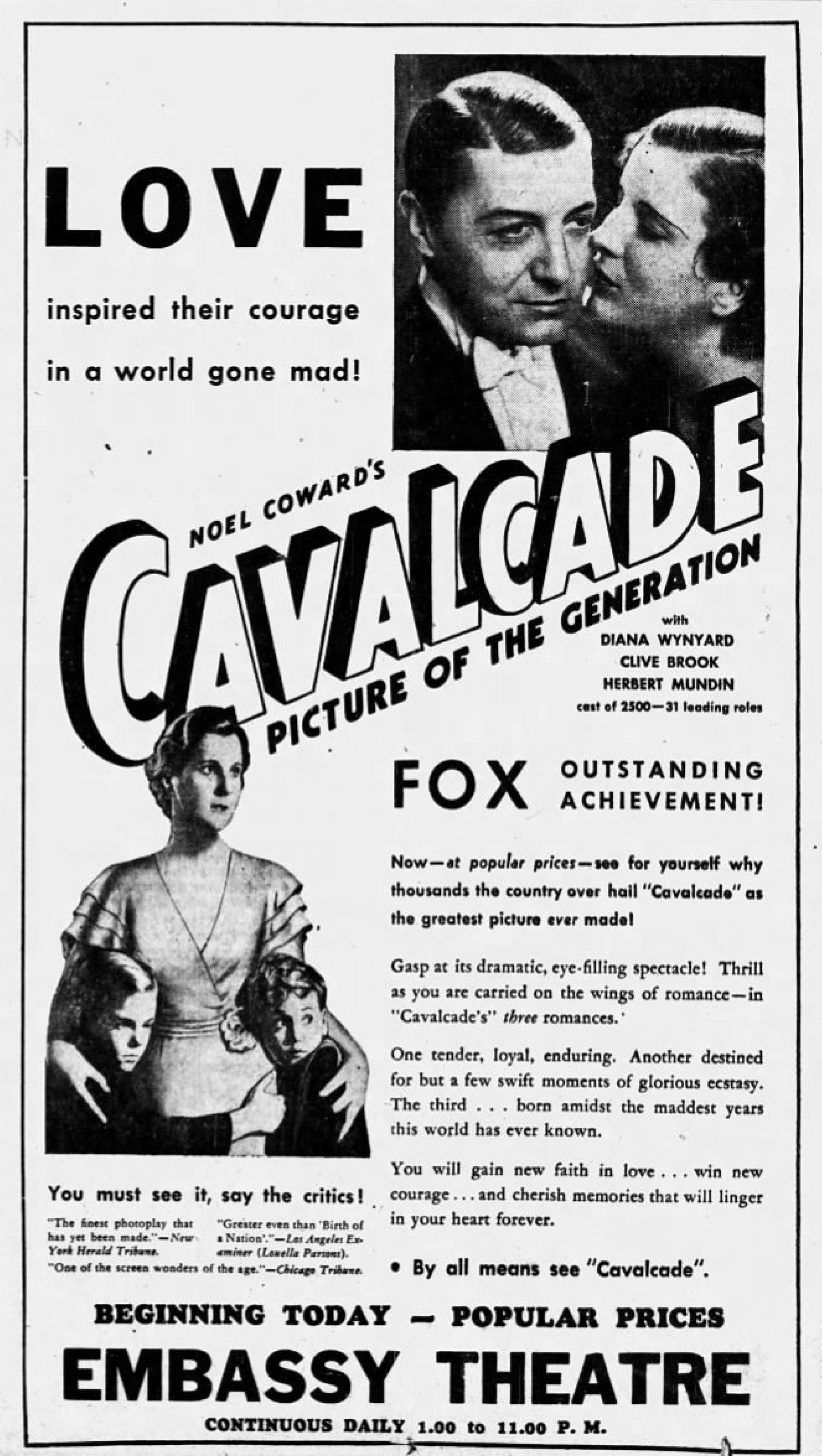 Embassy Theater advertisement for the American drama film Cavalcade (1933) - 14 Apr. 1933 Morning Call, Allentown PA